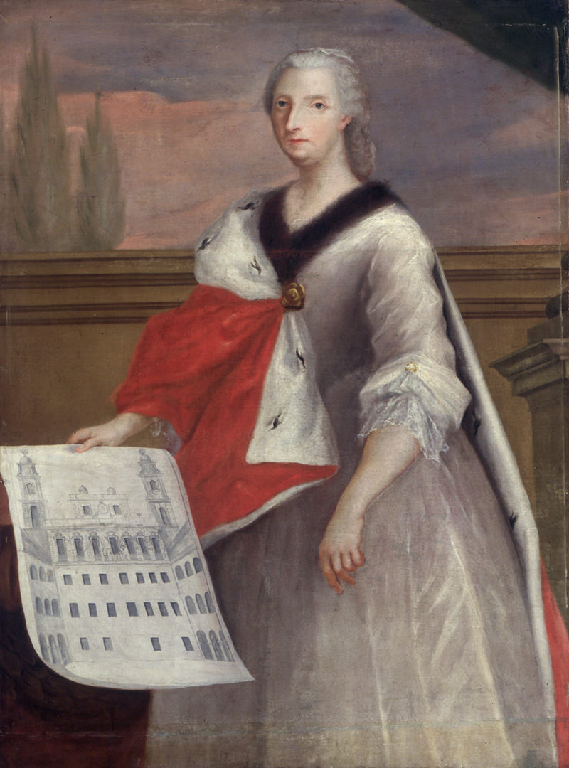 Portrait of Elżbieta Ogińska (1700-1767)